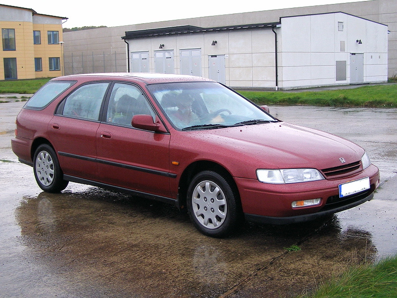 A Honda Accord (Acura TSX) manufactured in 1994.